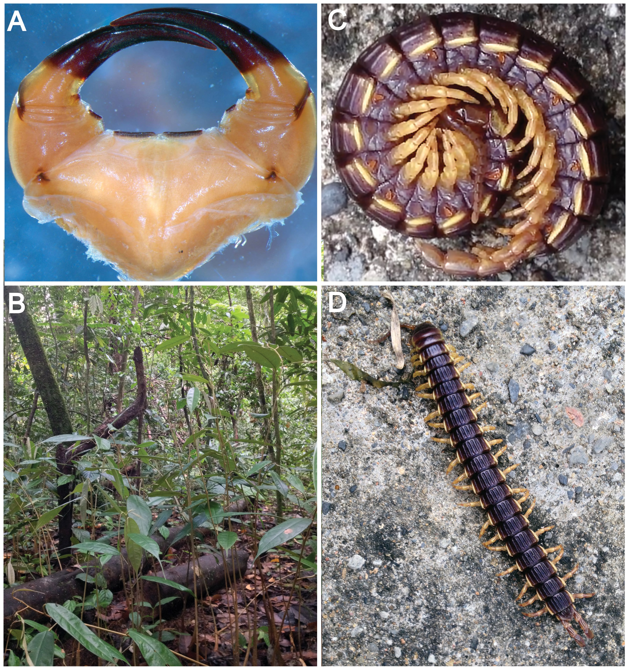 Edentistoma octosulcatum (Scolopendromorpha: Scolopendridae) and its habitat. A, Forcipular segment in ventral view; B, alluvial forest where specimen was collected in March 2013; C–D, specimen used for DNA sequencing. C, coiled; D, walking.